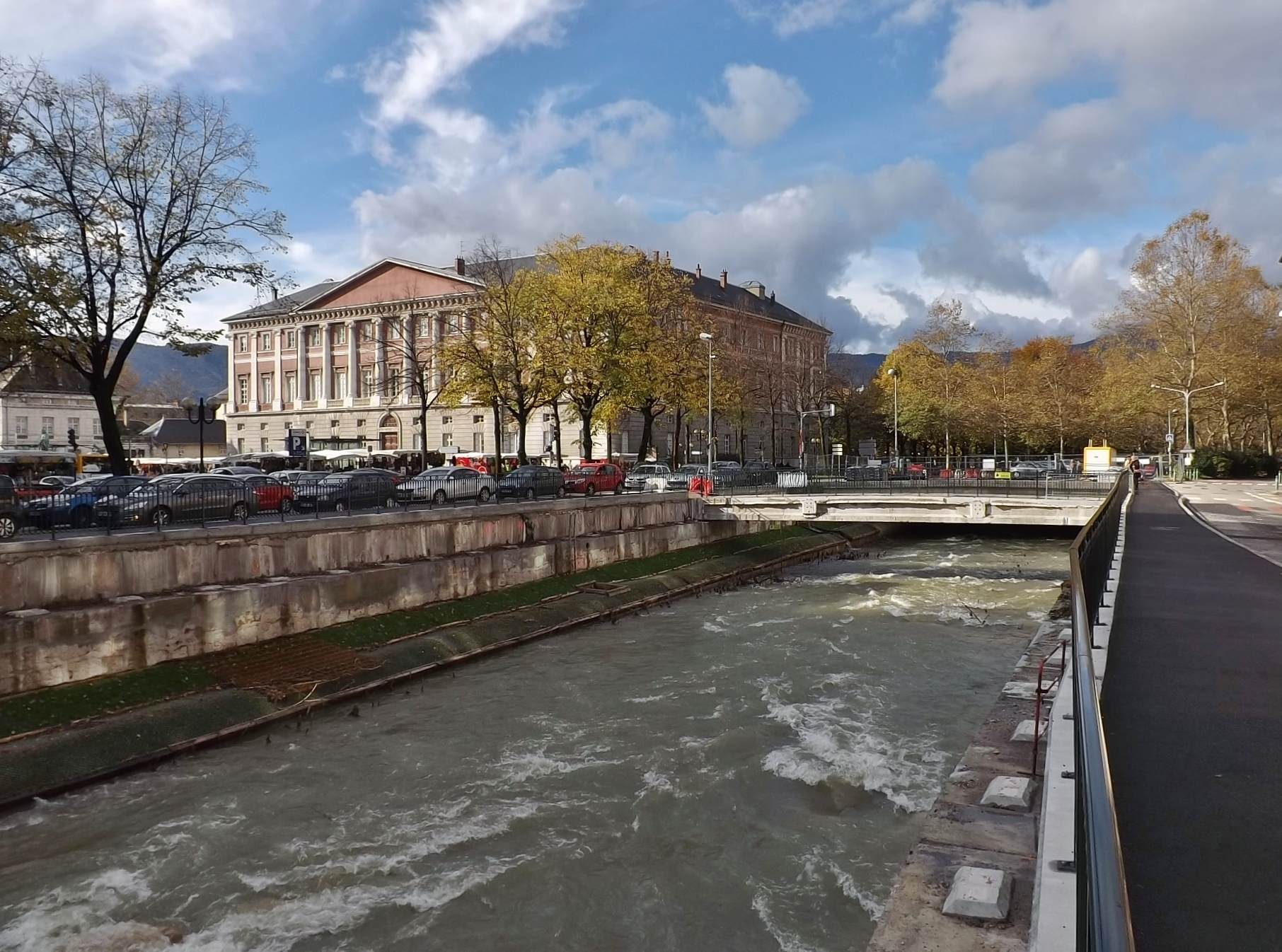 Sight of the river Leysse in the downtown of Chambéry in Savoie, France. In novembre 2013, this part of the river is uncovered since only few weeks. Can also be seen the city courthouse.